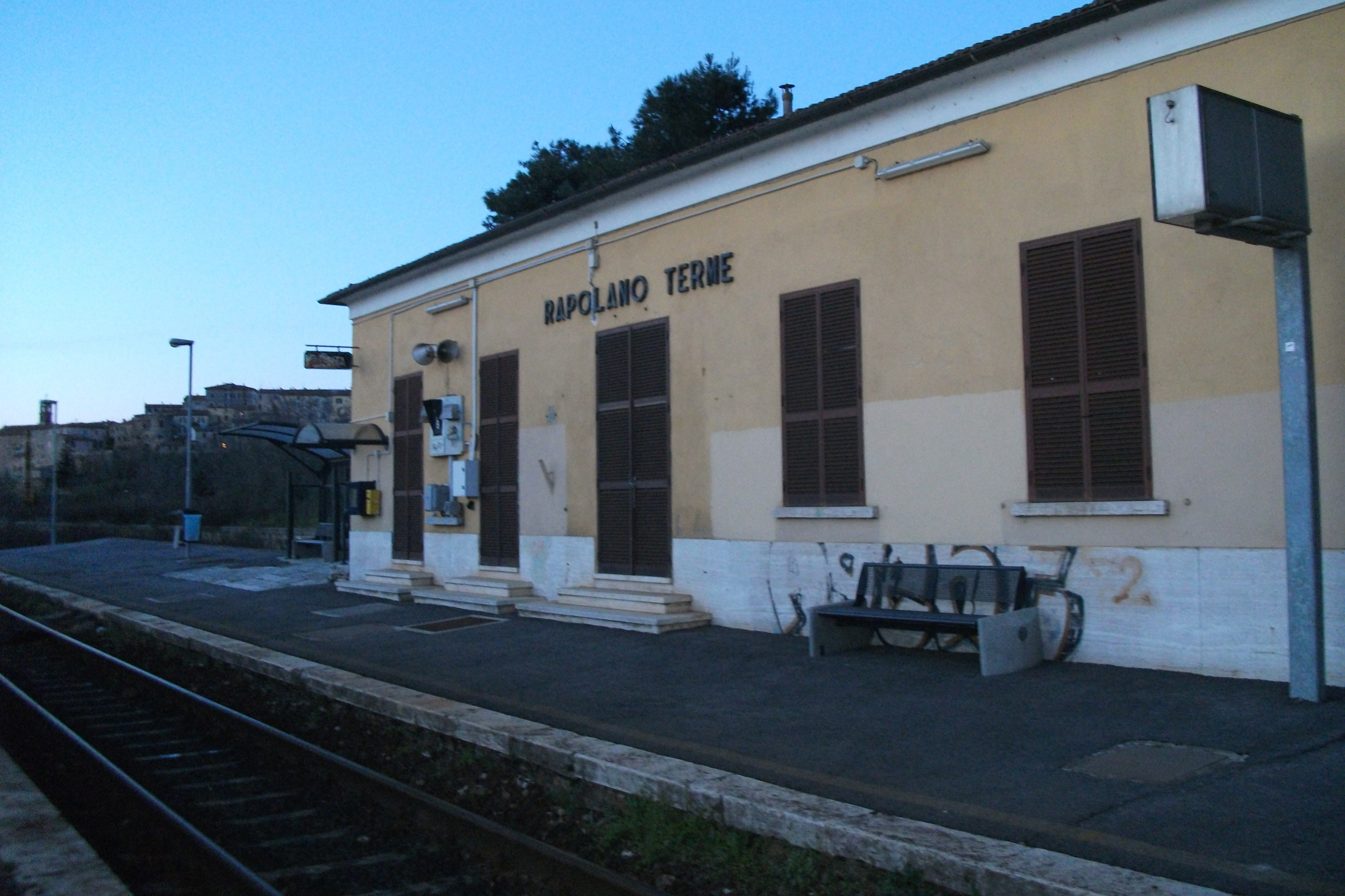 Rapolano Terme railway station